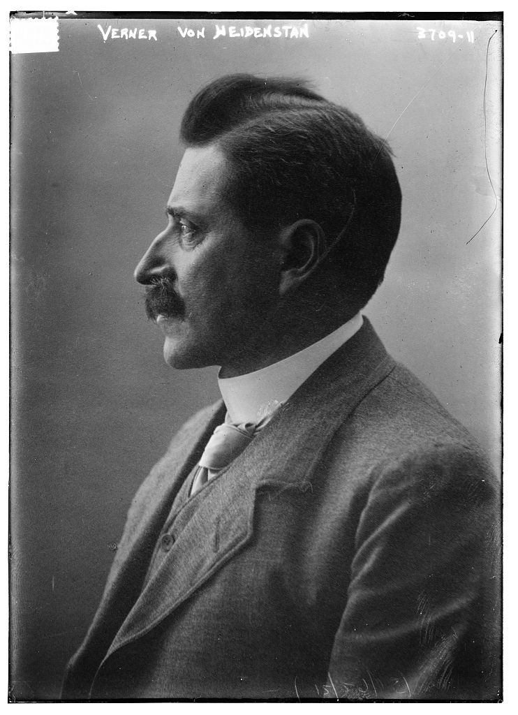 Verner von Heidenstam in 1915